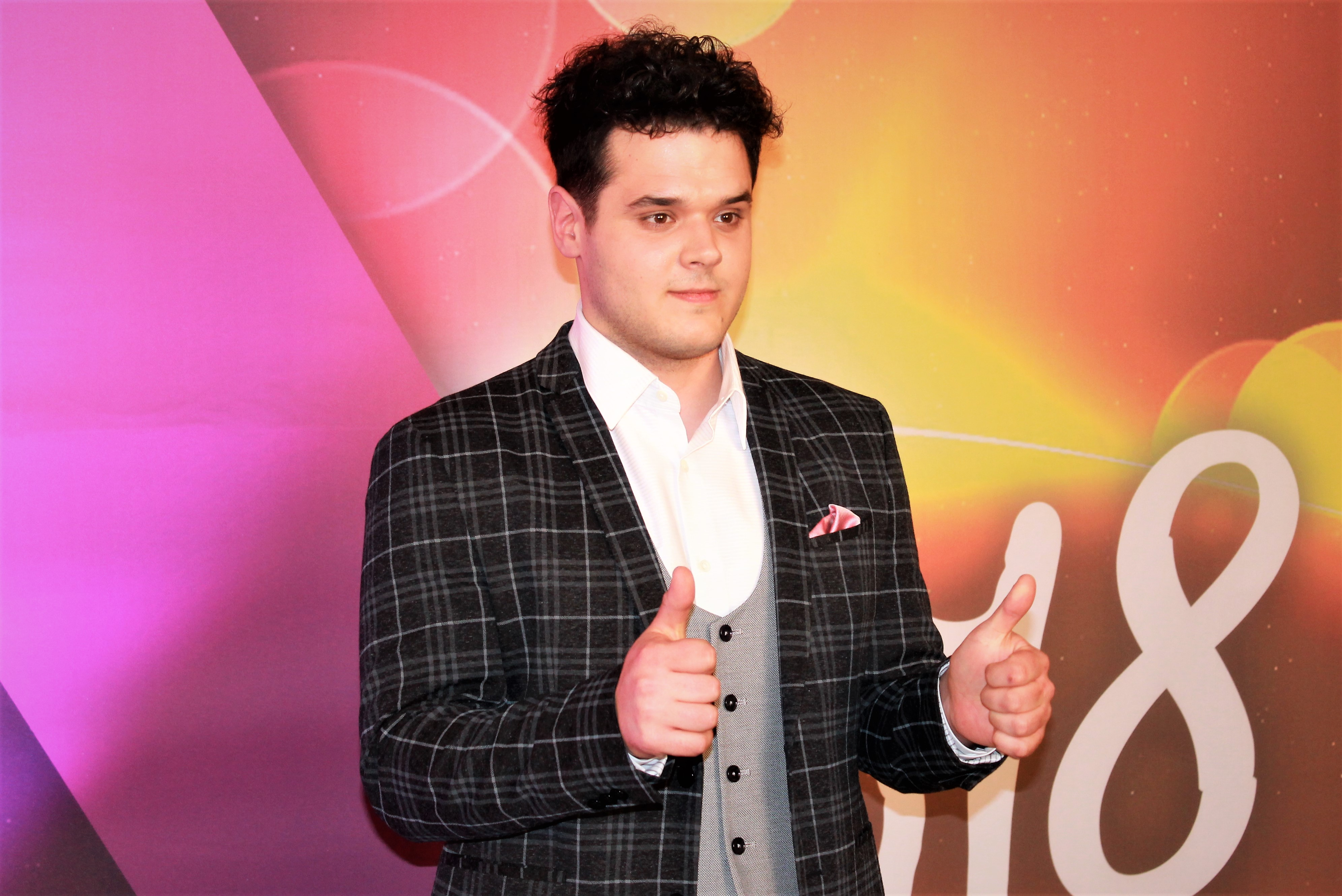 A Dal 2018 participant: Ceasefire X (Bence Vavra)